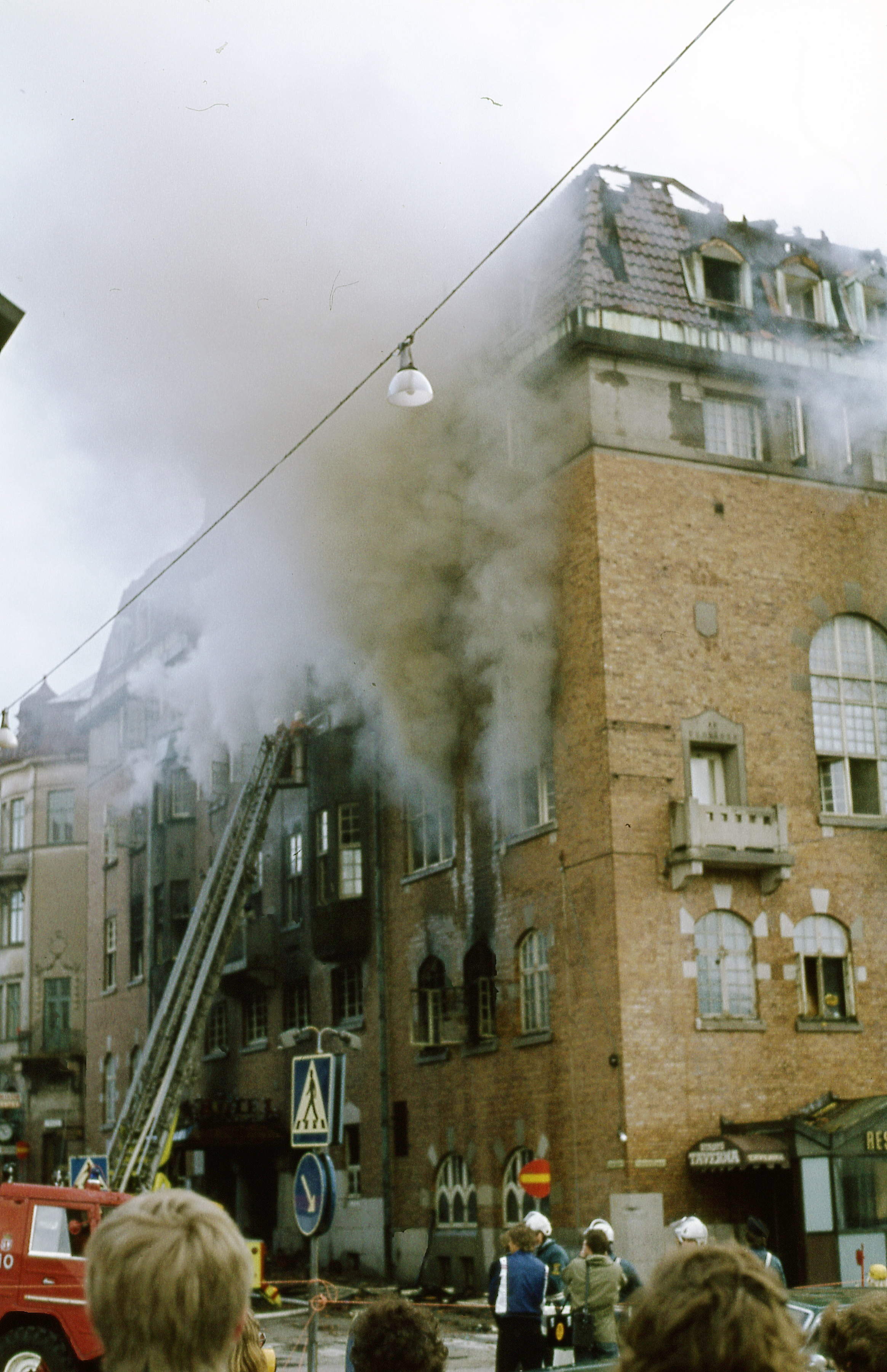 The fire at stadshotellet in Borås 1978